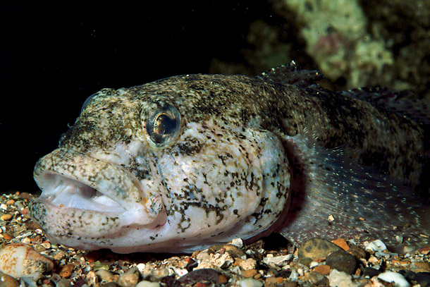 Gobius cobitis photographed near Tuscany coasts (Italy). Photo by Stefano Guerrieri.